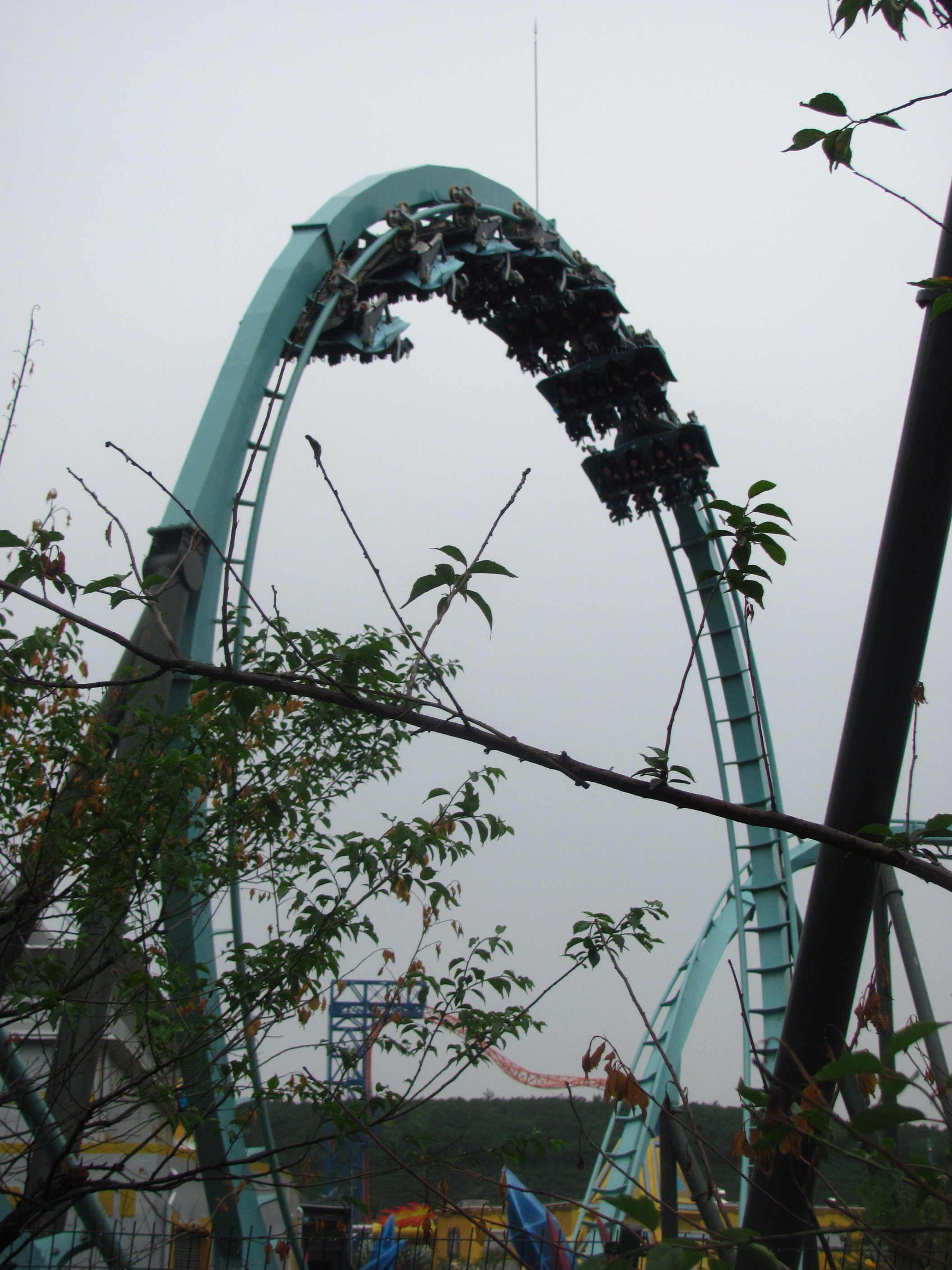 Sky Scrapper, World Joyland, China